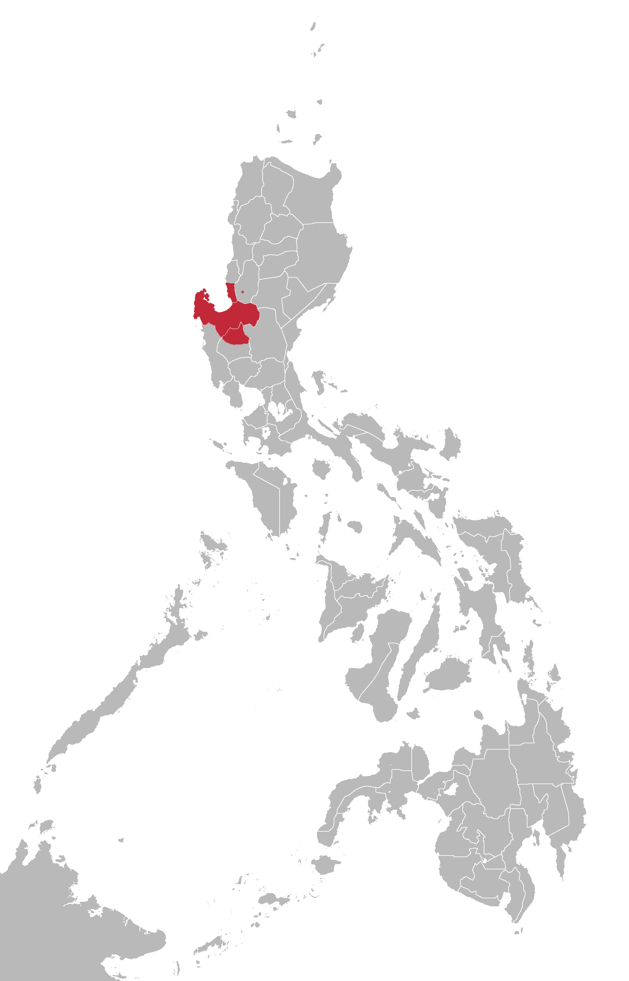 Pangasinan Language Map